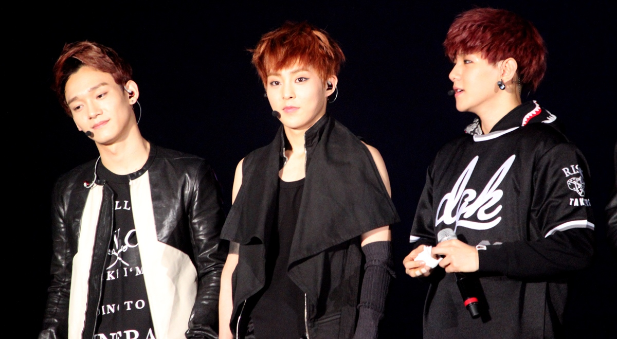 EXO at the SMTown Week on December 24, 2013.